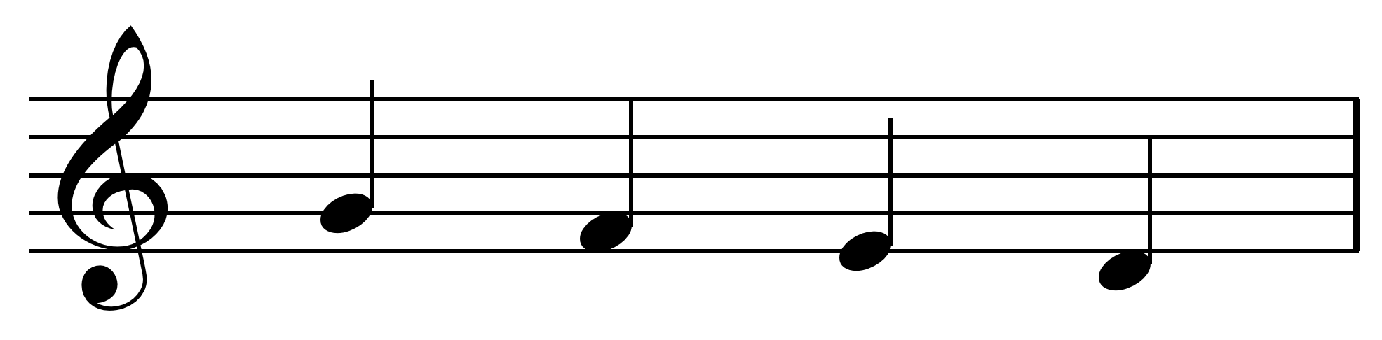 Dorian tetrachord. Created by Hyacinth (talk) using Sibelius 5.